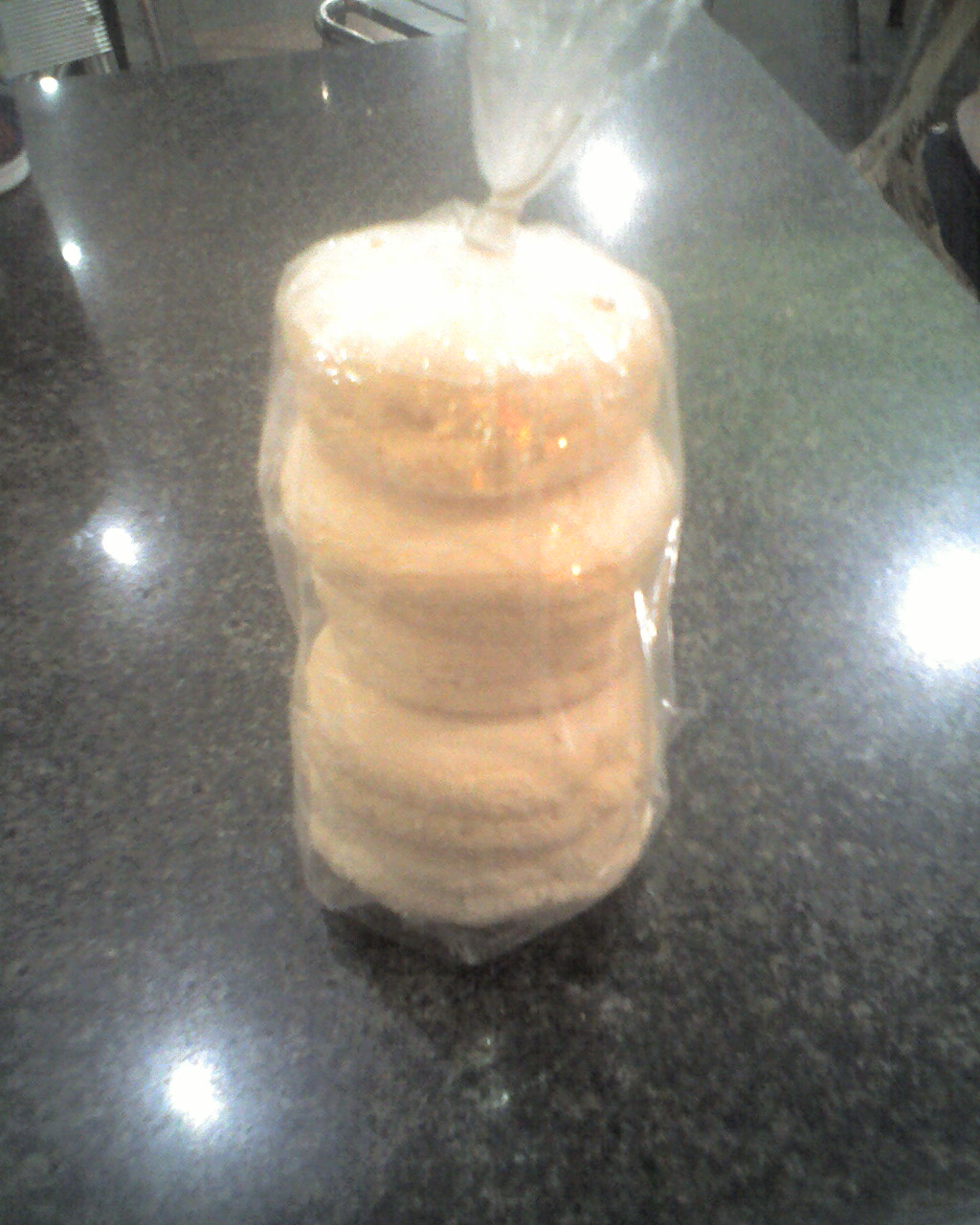 food broa from brazil Fortaleza Ceara